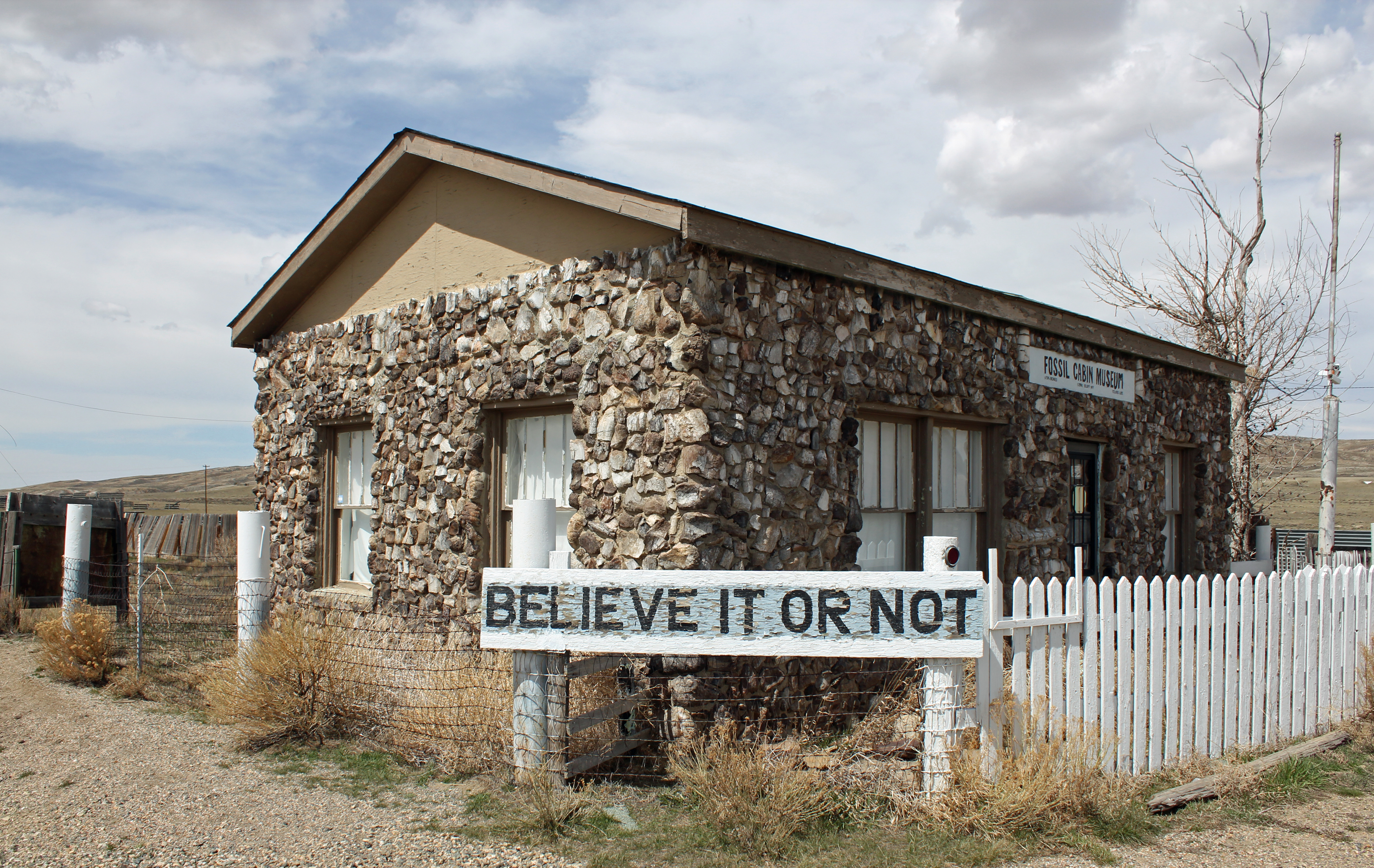 The Fossil Cabin, located on U.S. Route 30 near Medicine Bow, Wyoming. The structure's walls have dinosaur fossils excavated from a nearby source embedded in them.